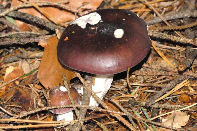 Russula spec. from Commanster, Belgian High Ardennes. The determination of the species shown in this picture has been verified.